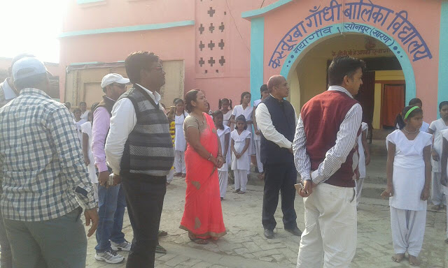 Kasturba Gandhi Balika Vidyalaya nayagaon sonpur bihar Taken by me during visit of sanjay kumar singh, BSEB on 14 february 2017